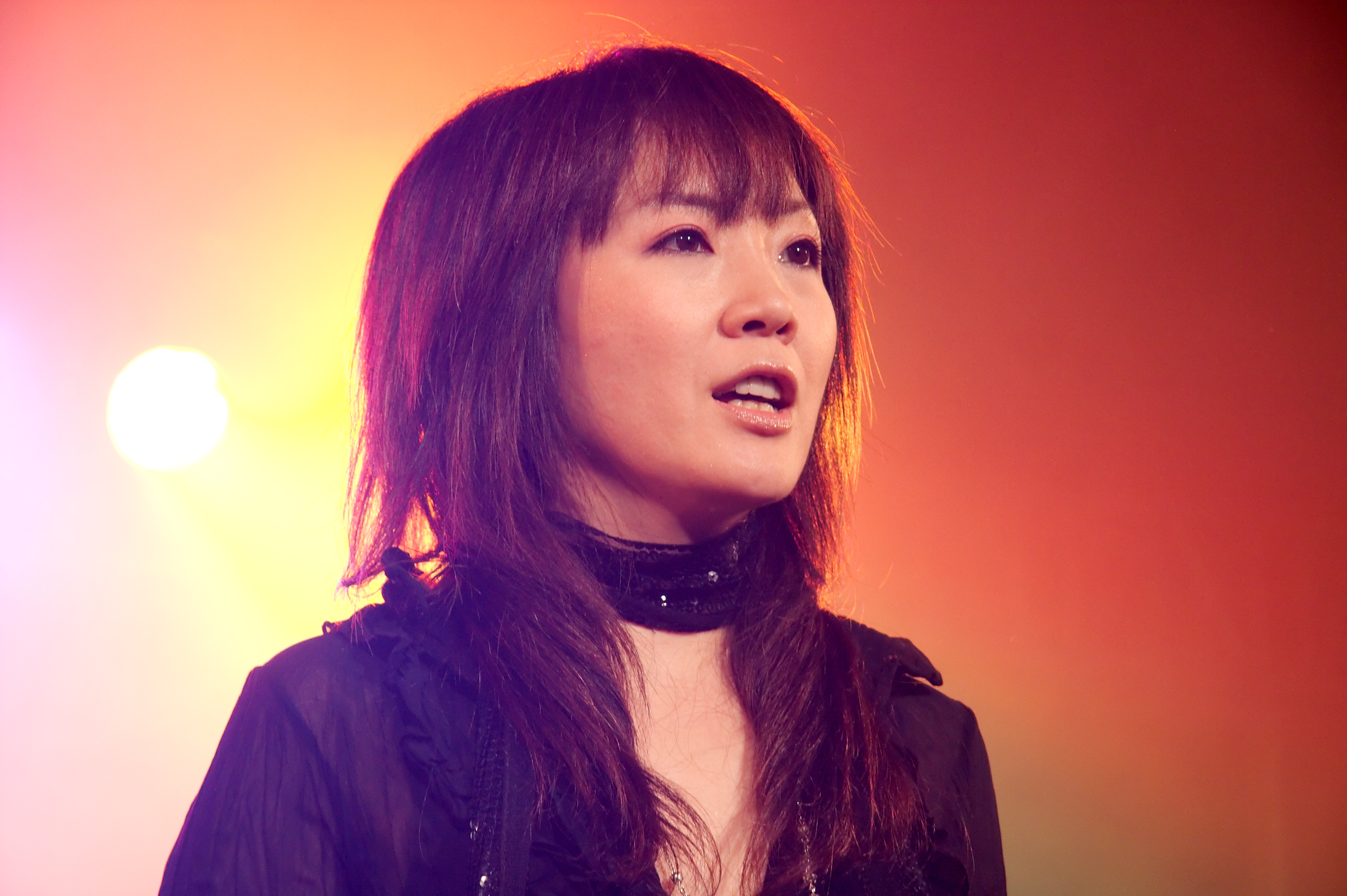 JAM Project live at Chibi Japan Expo 2008 (Paris, France).